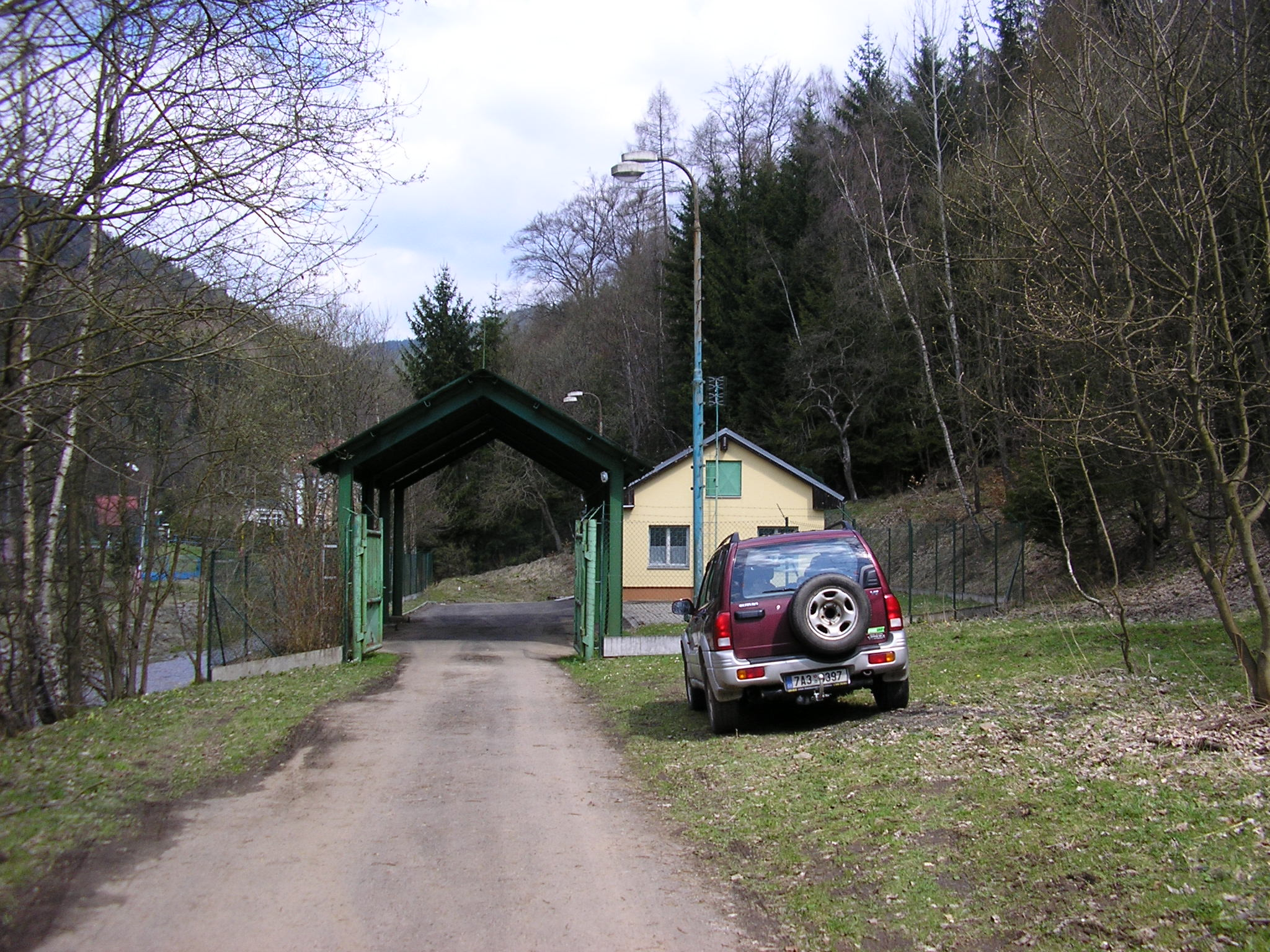 Uranium mine "Bratrství" near Jáchymov in Bohemia